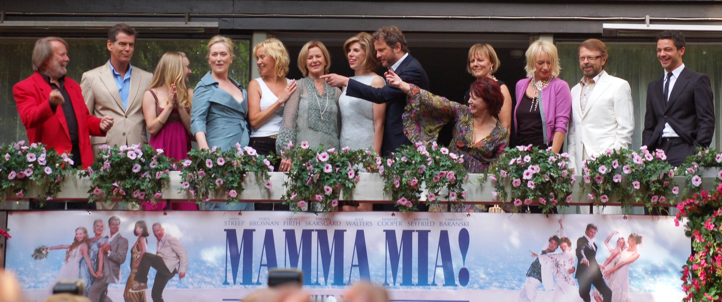 Premiere of Mamma Mia! (2008) with all four members of ABBA photographed together for the first time since 1986. From left: Benny Andersson (ABBA), Pierce Brosnan ("Sam"), Amanda Seyfried ("Sophie"), Meryl Streep ("Donna"), Agnetha Fältskog (ABBA), Anni-Frida Lyngstad (ABBA), Christine Baranski ("Tanya"), Colin Firth ("Harry"), Catherine Johnson (Script), Phyllida Lloyd (Director), Judy Craymer (Producer), Björn Ulvaeus (ABBA) and Dominic Cooper ("Sky").